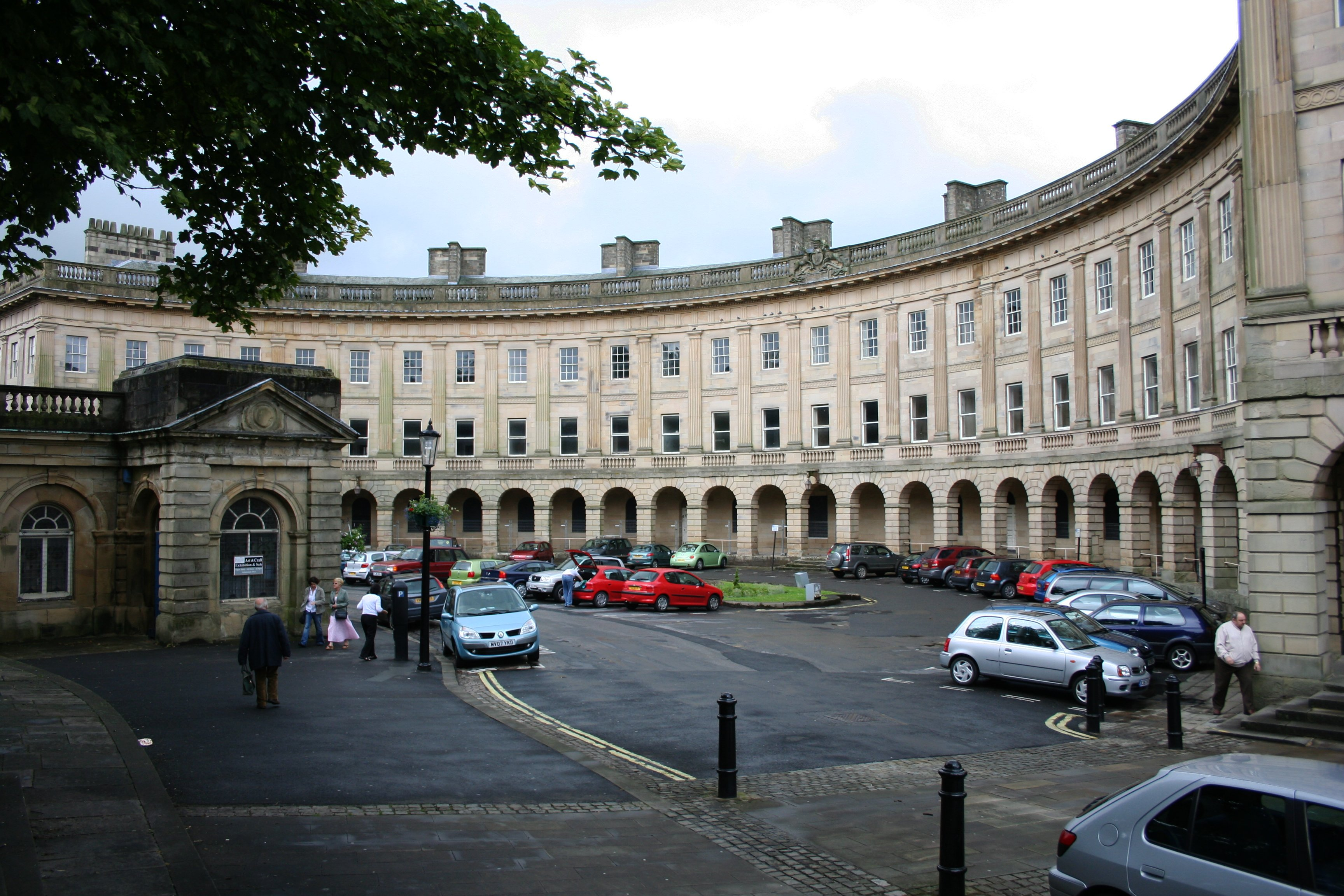 The Crescent, Buxton, Derbyshire, England. Built circa 1780, modeled on the Royal Crescent of Bath.